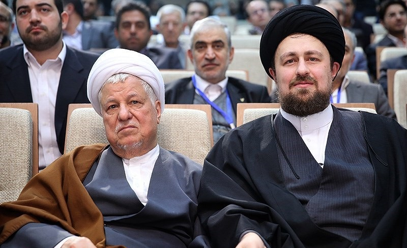 Akbar Hashemi Rafsanjani and Hassan Khomeini in Azad University